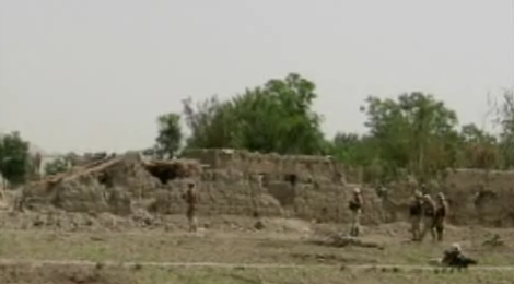 Scene of the Firefight in which Omar Khadr was captured